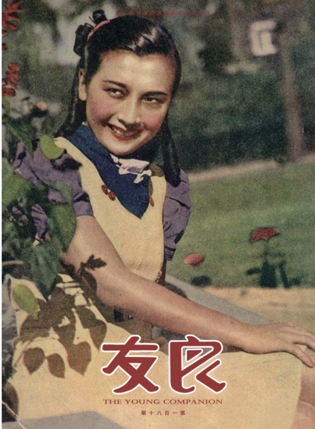 Chen Yunshang on the cover of Liangyou Magazine No. 180